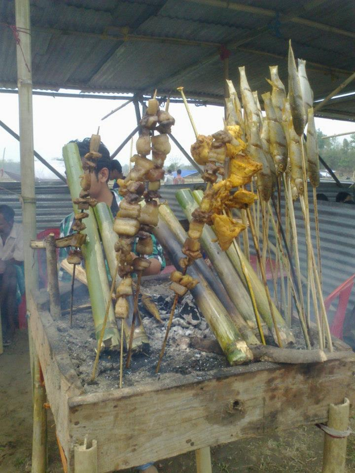 smoked pork , chicken and fish